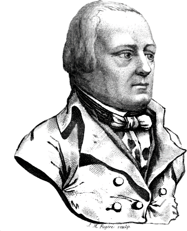 Portrait of Pierre Schneyder (1733–1814), German-born German painter who worked as an archaeologist in France.